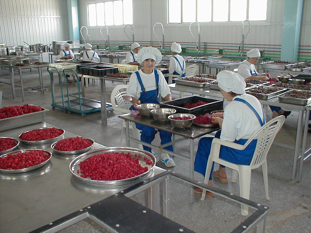 Fruit Processing Factory in Armenia.